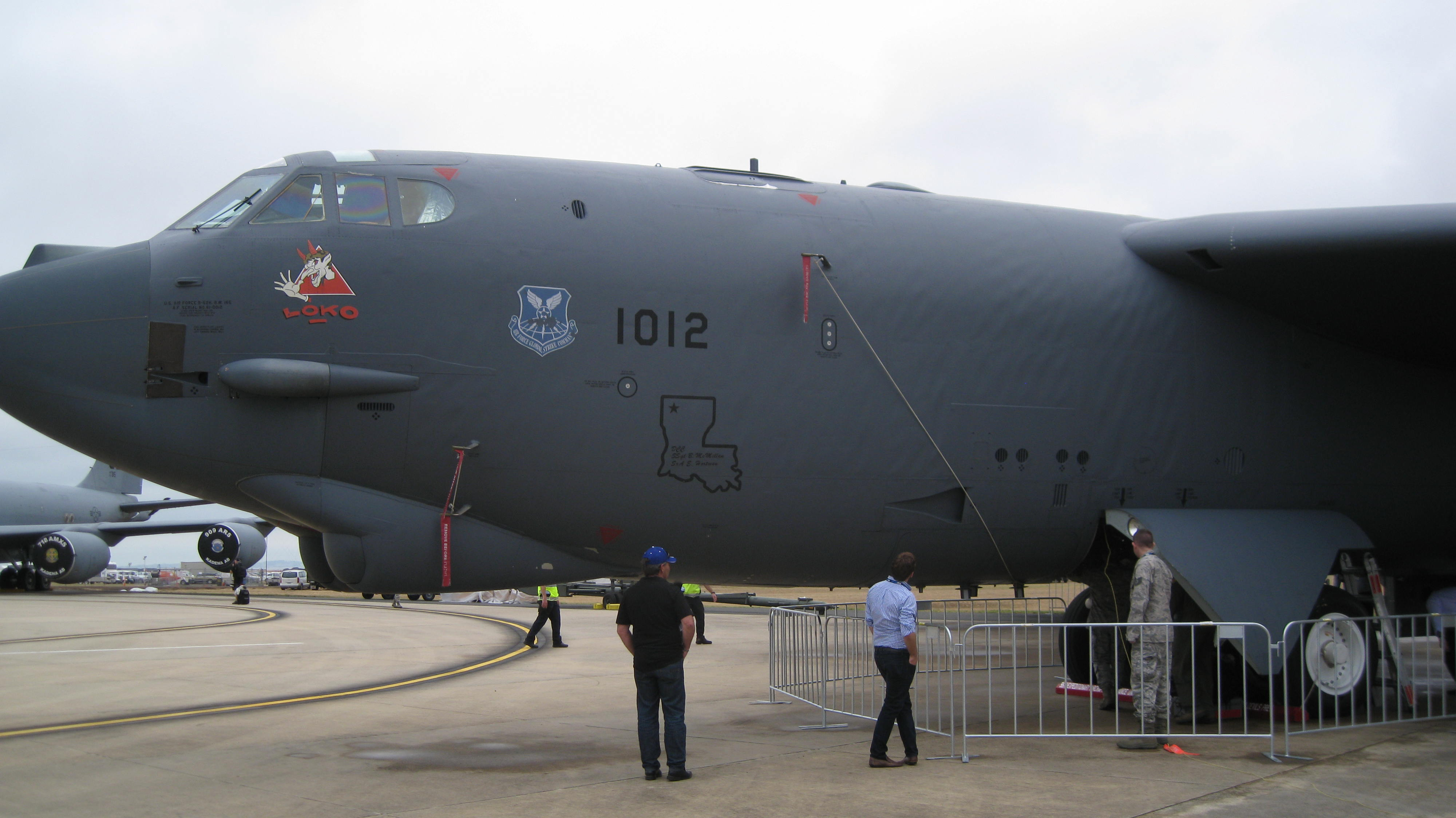 Skin panels are buckled on side of aircraft